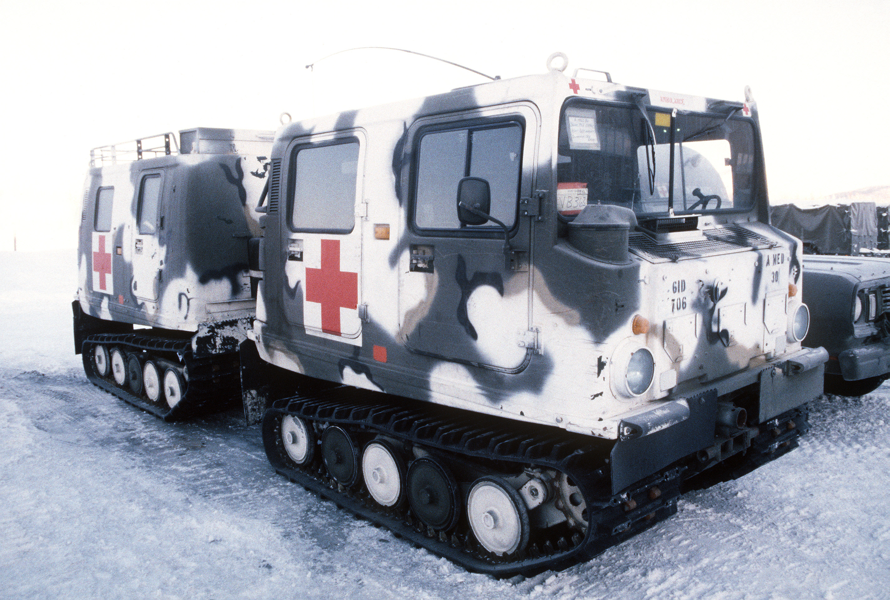 Caption: "M-973 small unit support vehicles stand ready for use during the joint service exercise Brim Frost '89.;Location: ELMENDORF AIR FORCE BASE, ALASKA (AK) UNITED STATES OF AMERICA (USA)